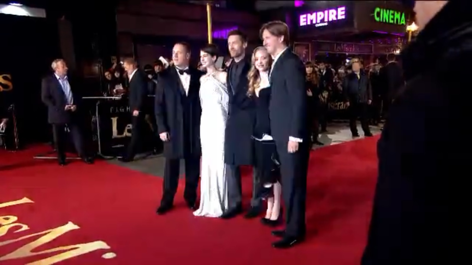 Here is a quick look at the World Premiere of Tom Hooper's Les Misérables live in London's Leicester Square produced by Sassy. Hugh Jackman, Anne Hathaway, Russell Crowe and Eddie Redmayne were just a few of the stars that graced the red carpet. We followed this up with an hour long TV special for Universal Pictures and SKY which took an in depth look into the film and also showed some sneeky peeks at the behind the scenes footage, it was presented by the one and only Michael Ball along with the beautiful Emma Willis.